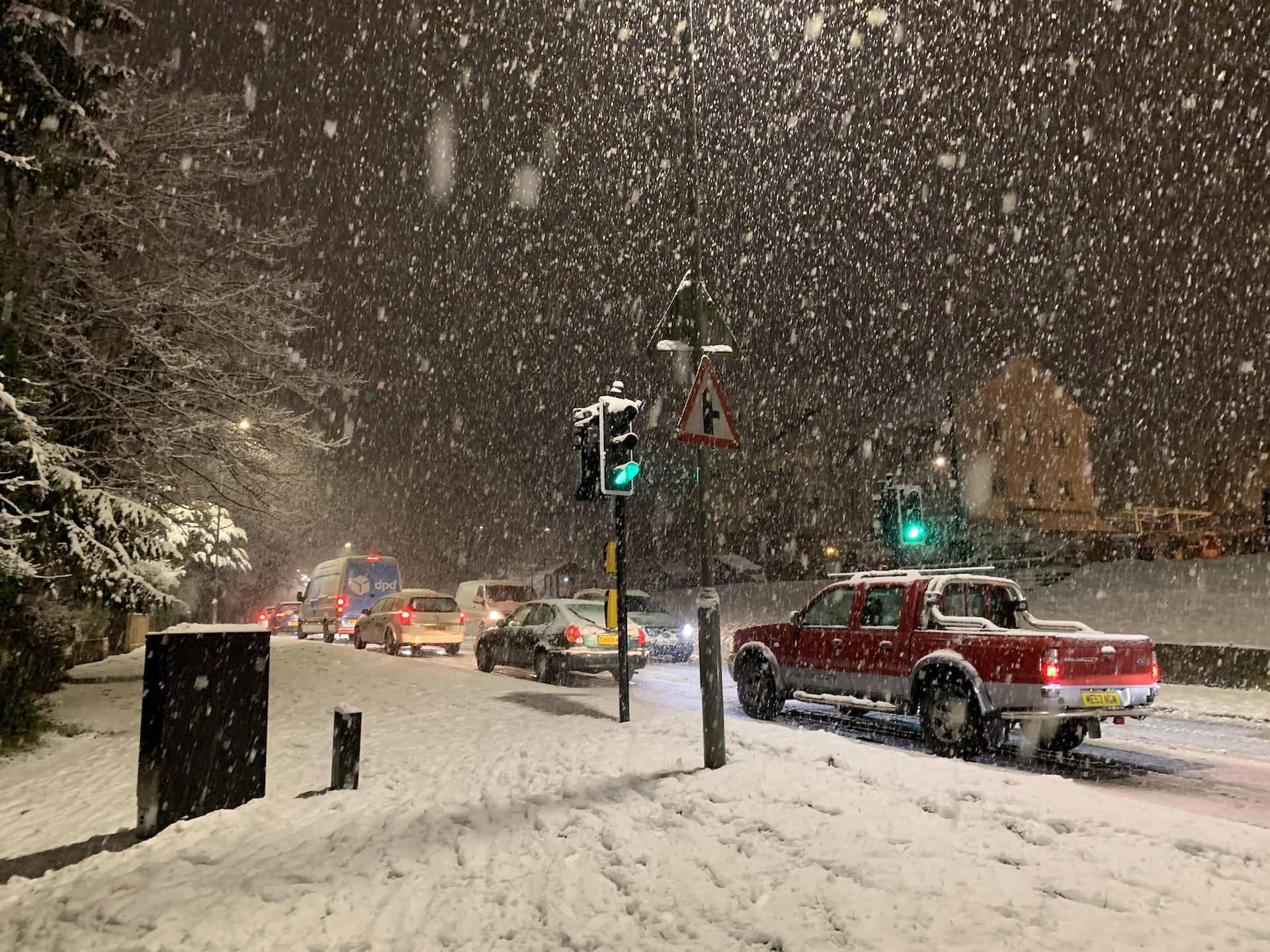 Snow falls on a road near Hazlemere Park Parade. Picture taken in Winter 2019.